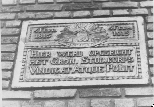 Wall stone commemorating the establishment of the oldest Dutch student association, the GSC Vindicat atque Polit